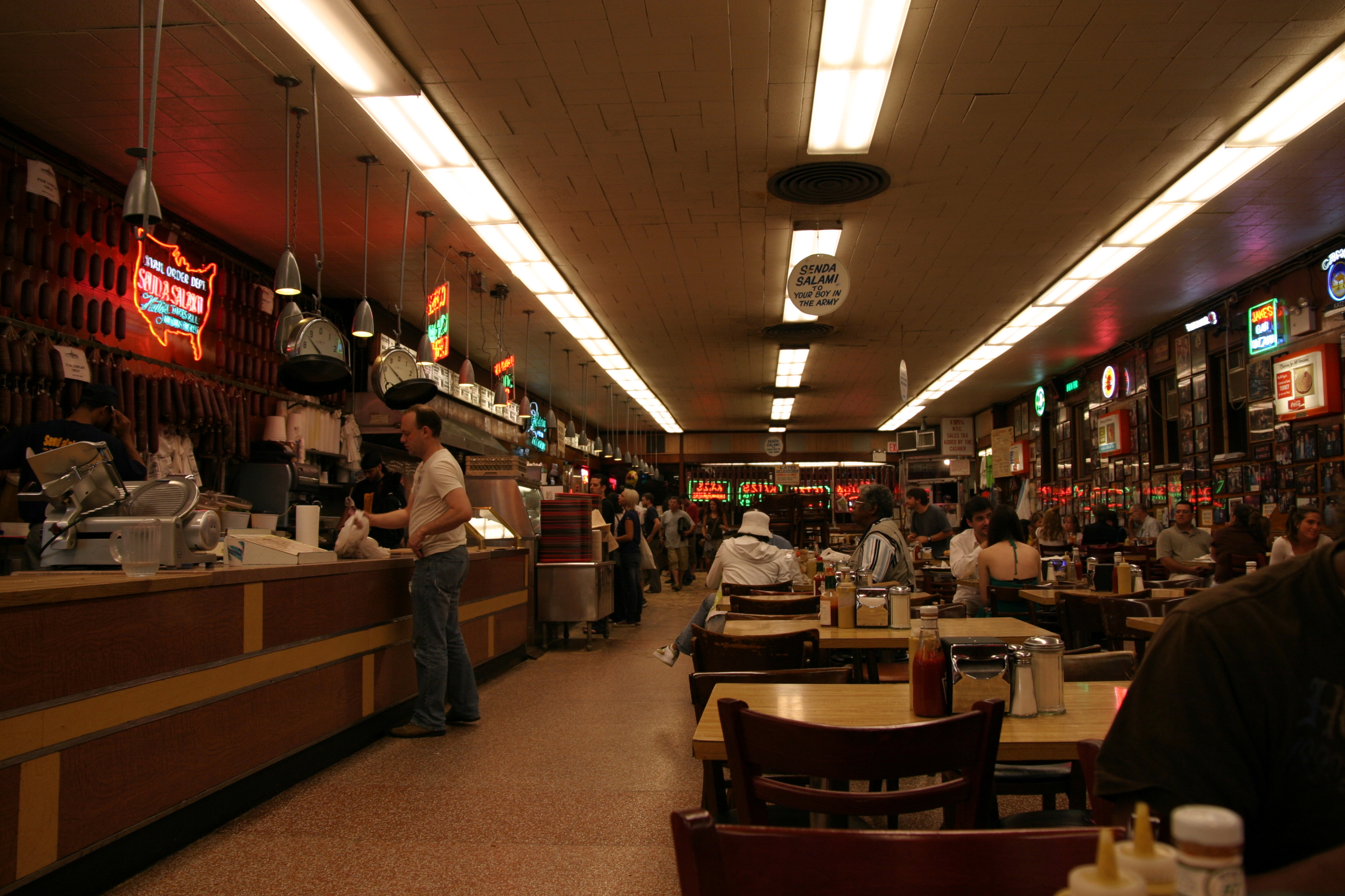 Interior of Katz's Delicatessen in New York City